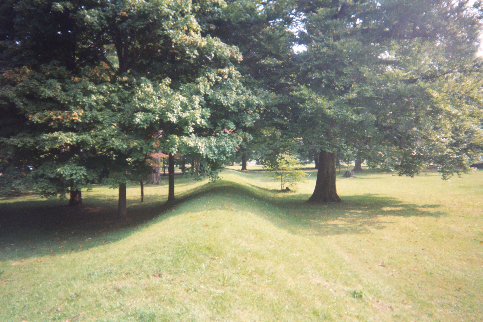 Great Circle Earthworks, part of the Newark Earthworks in Newark, Ohio, built by the Hopewell culture from 100 BC to 500 AD.